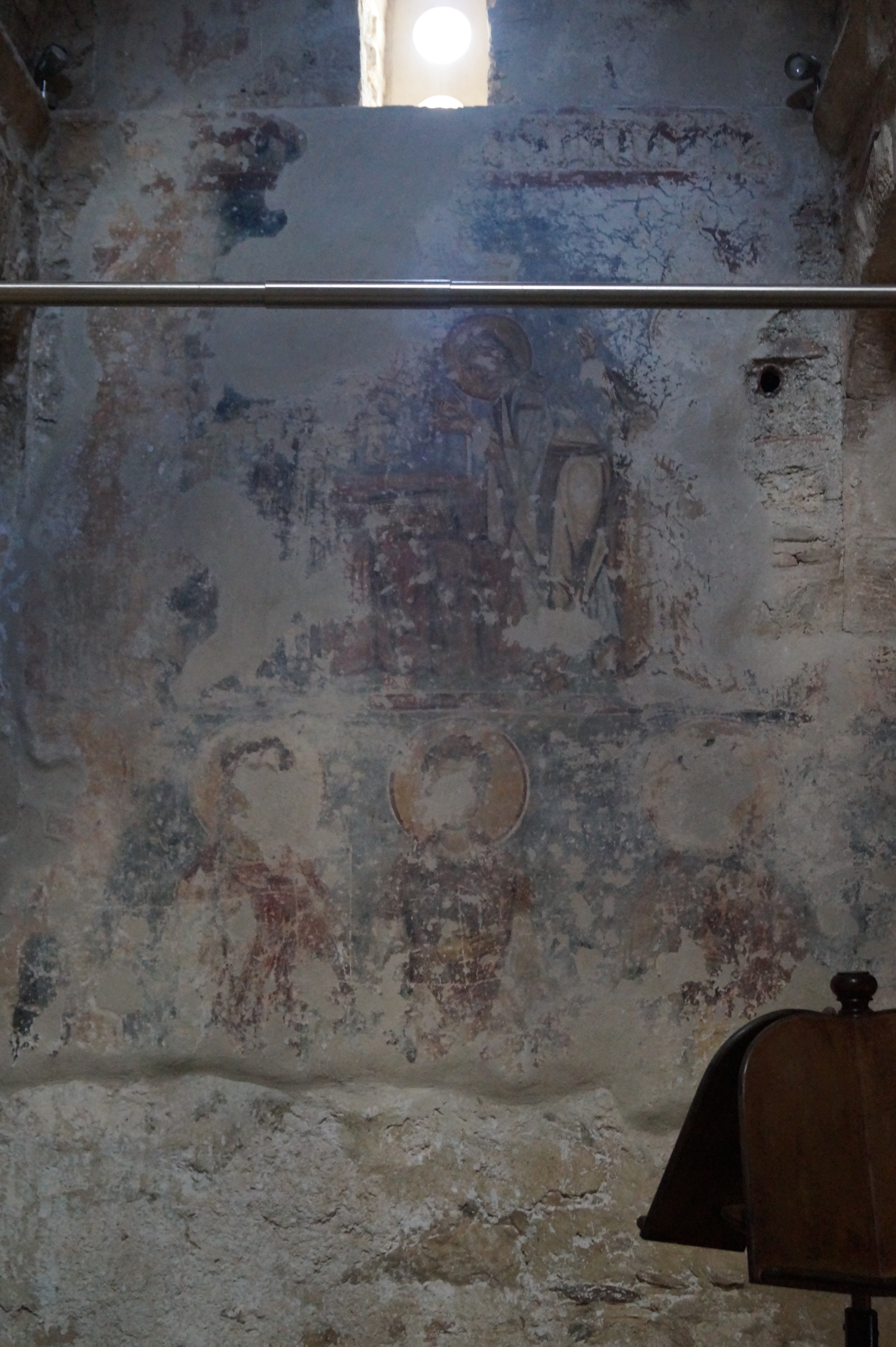 Lygourio, Argolida, Greece: Church of Agios Ioannis Eleimon. Fresco inside on the south wall.